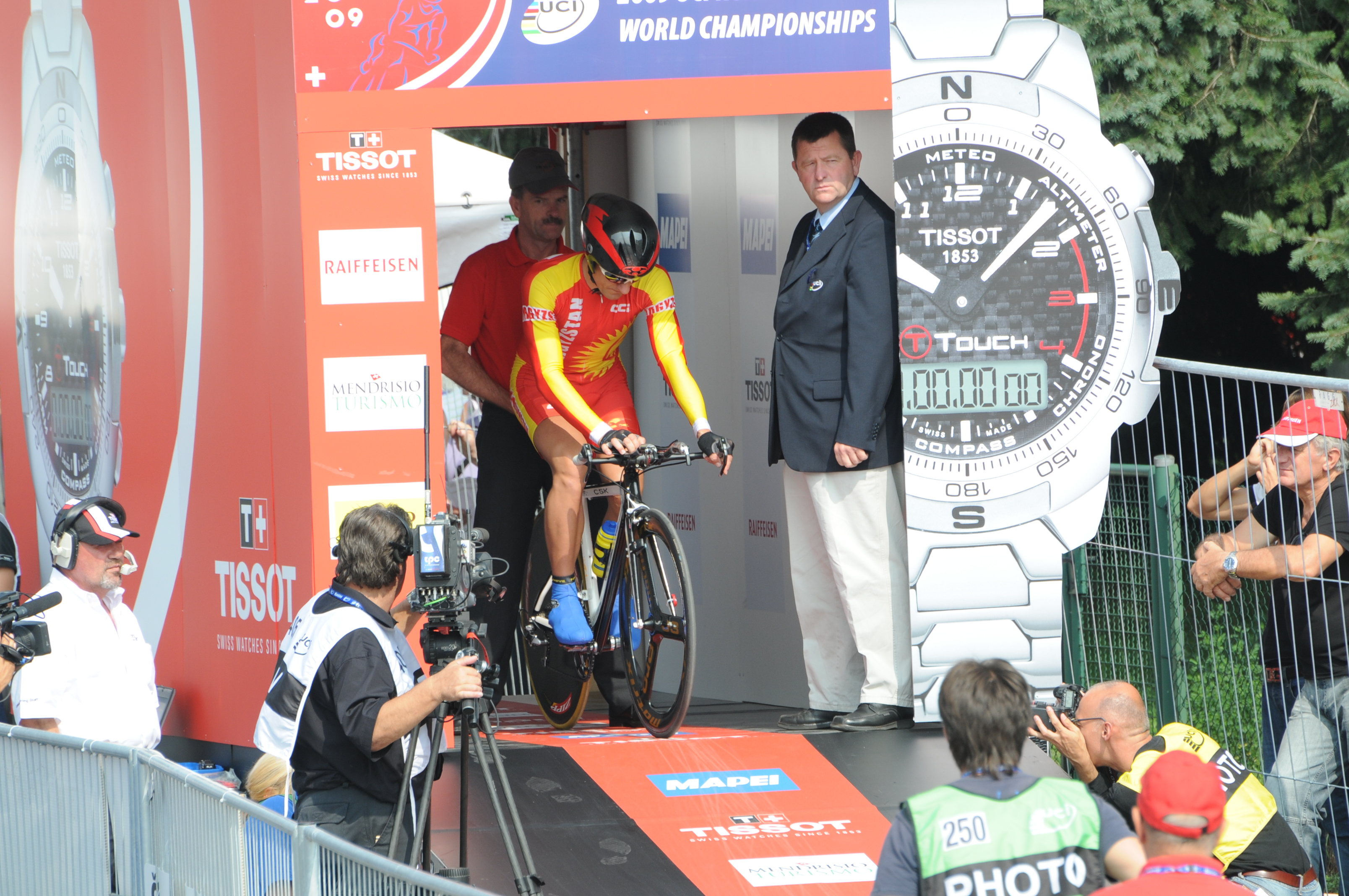 Eugen Wacker at UCI World Championships in Mendrisio, Switzerland